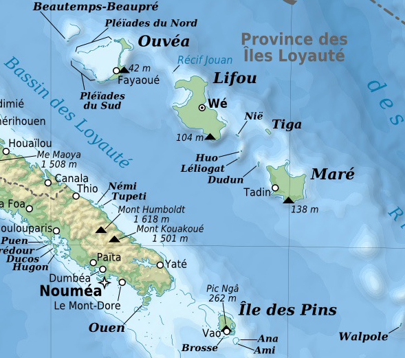 Bathymetric and topographic map of New Caledonia and Vanuatu, Oceania.